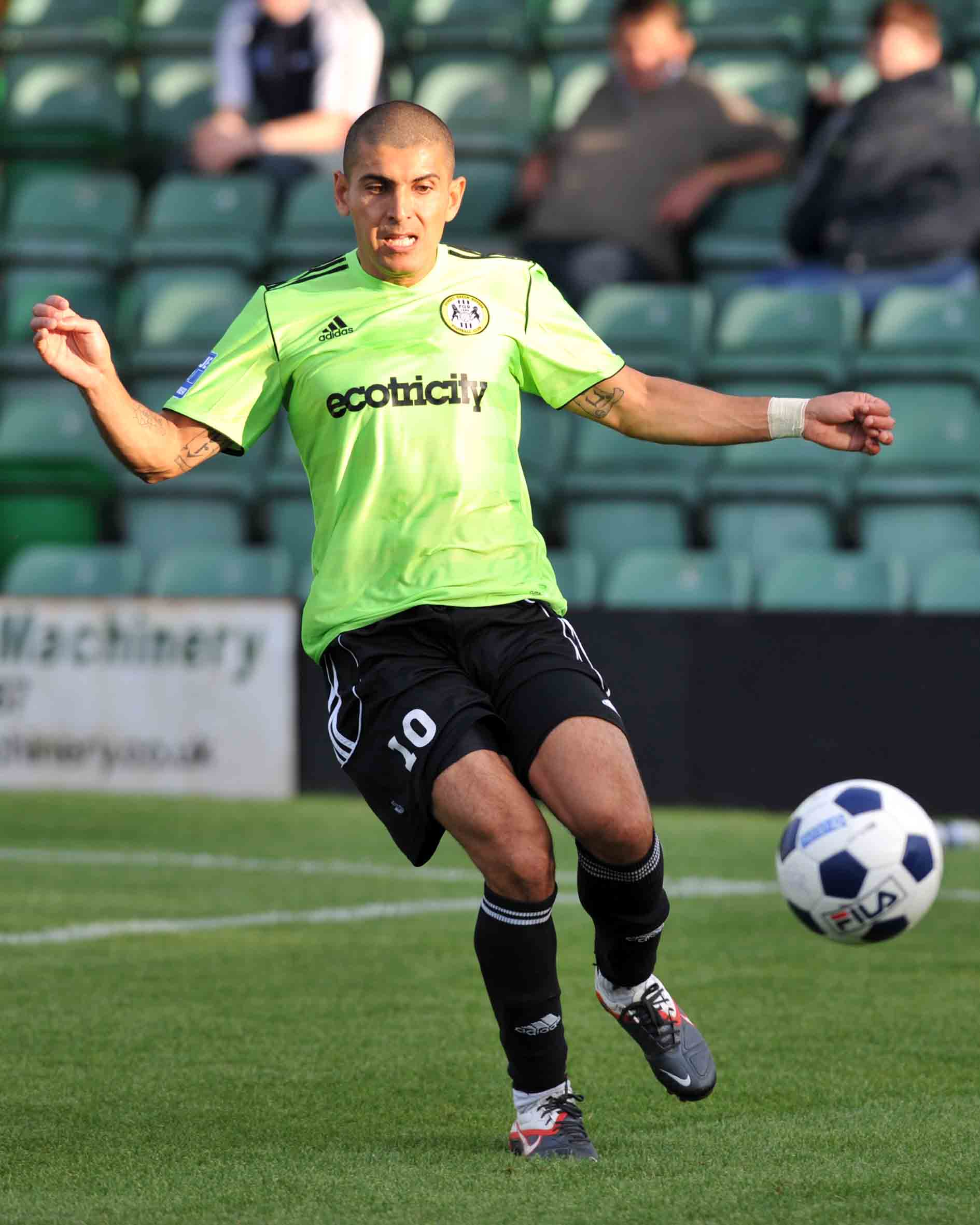 Magno Vieira playing for Forest Green Rovers during the 2012/13 season.